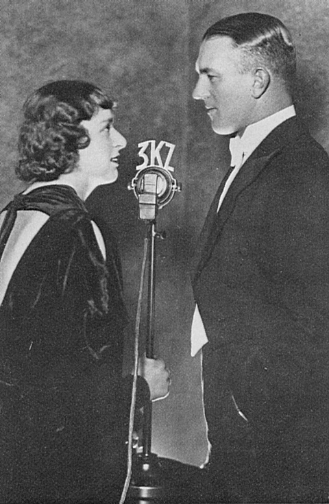 Image sourced from .au. Picture is pre-1952 (probably late 1930's).